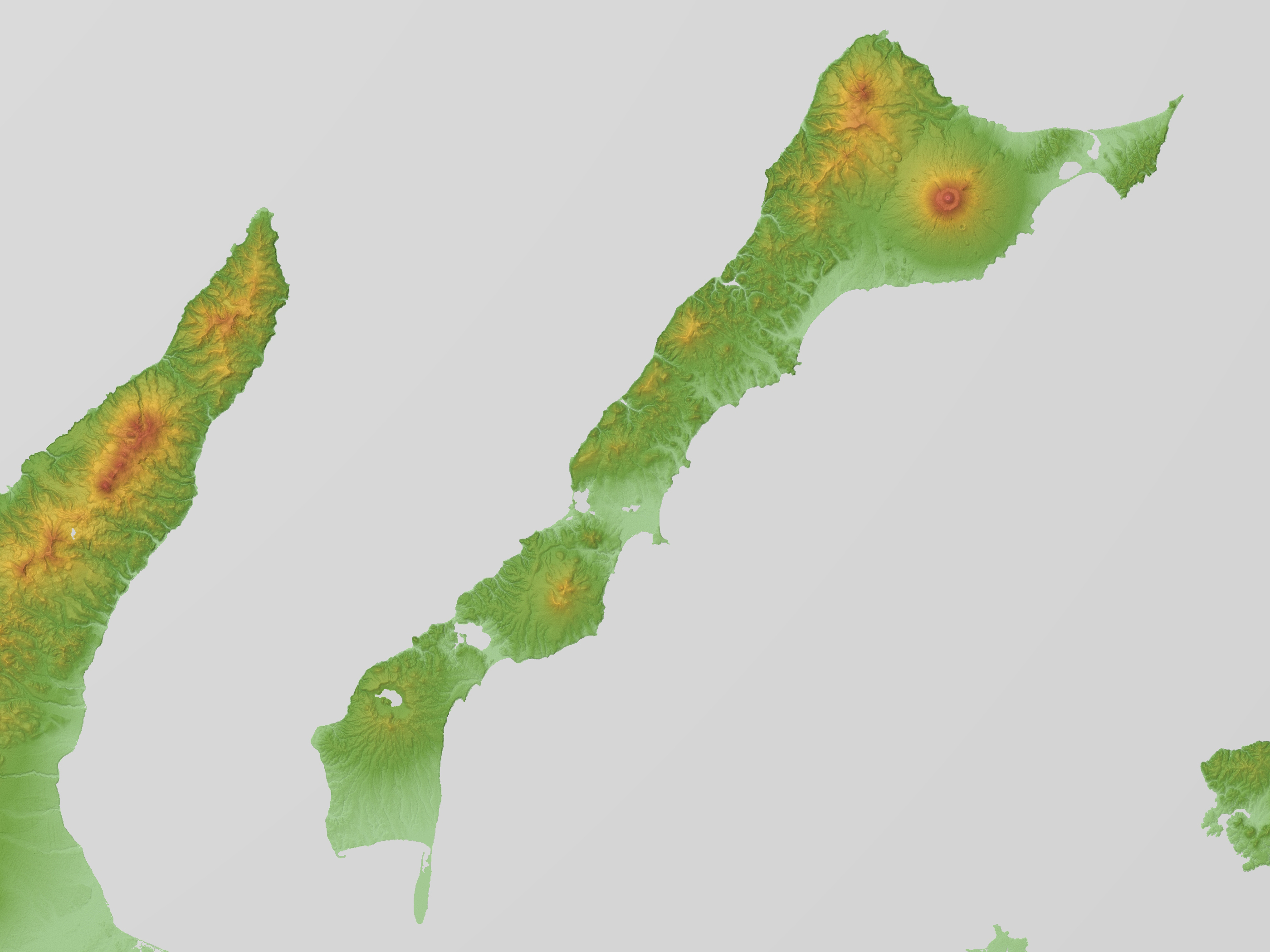 Kunashir Island in Kuril Islands, Russia.